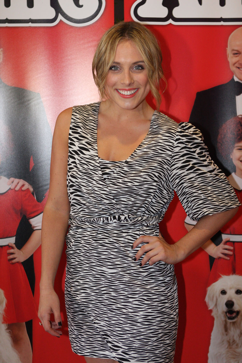 Casey Burgess